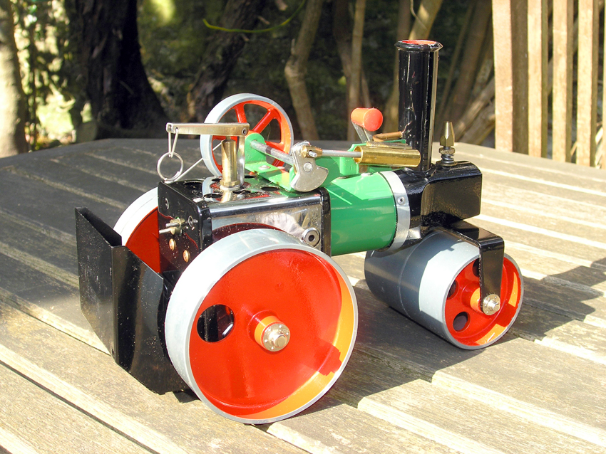 A mint Mamod SR1a roller taken in bright sunshine.